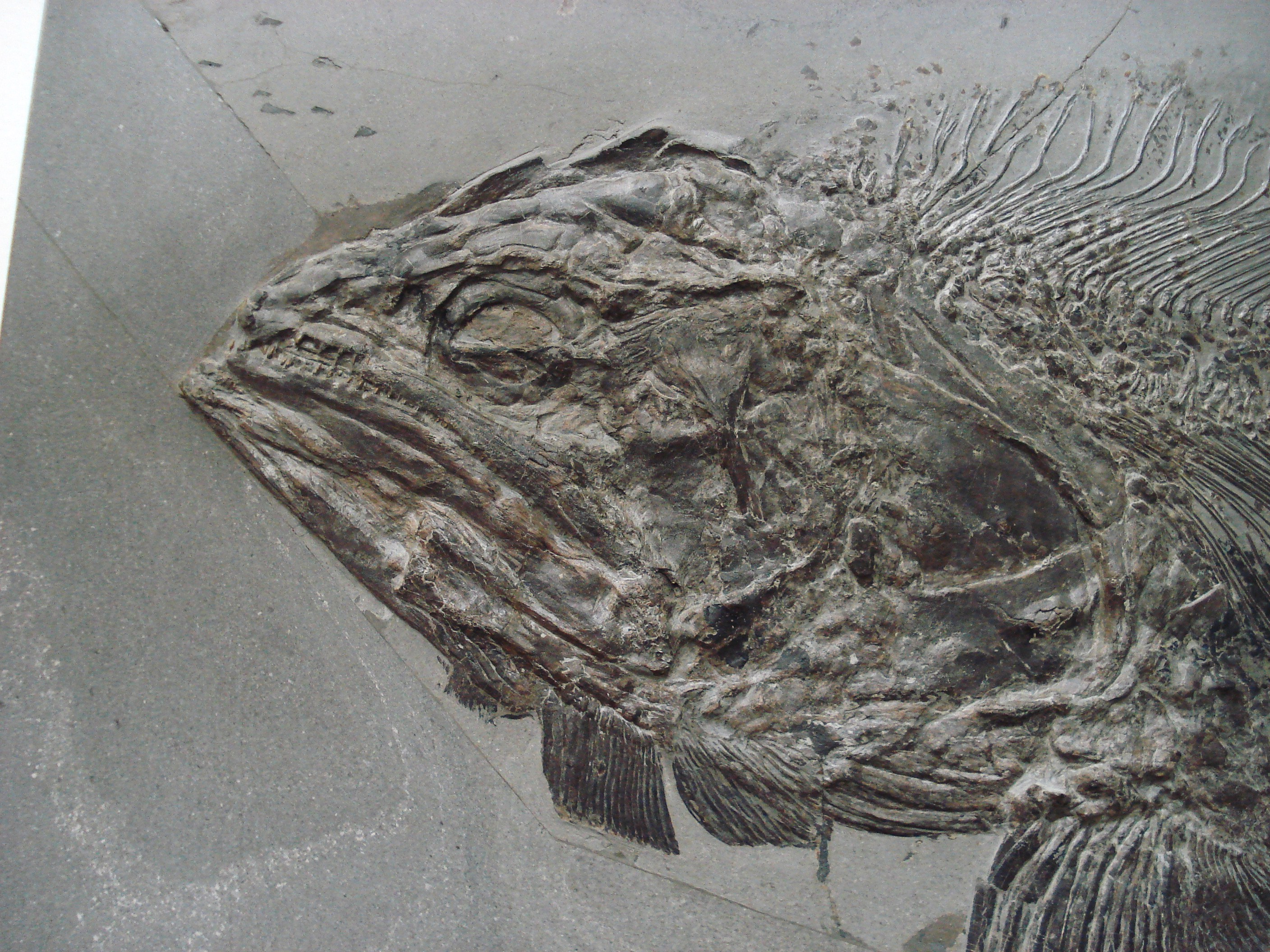 fossil of pachycormus